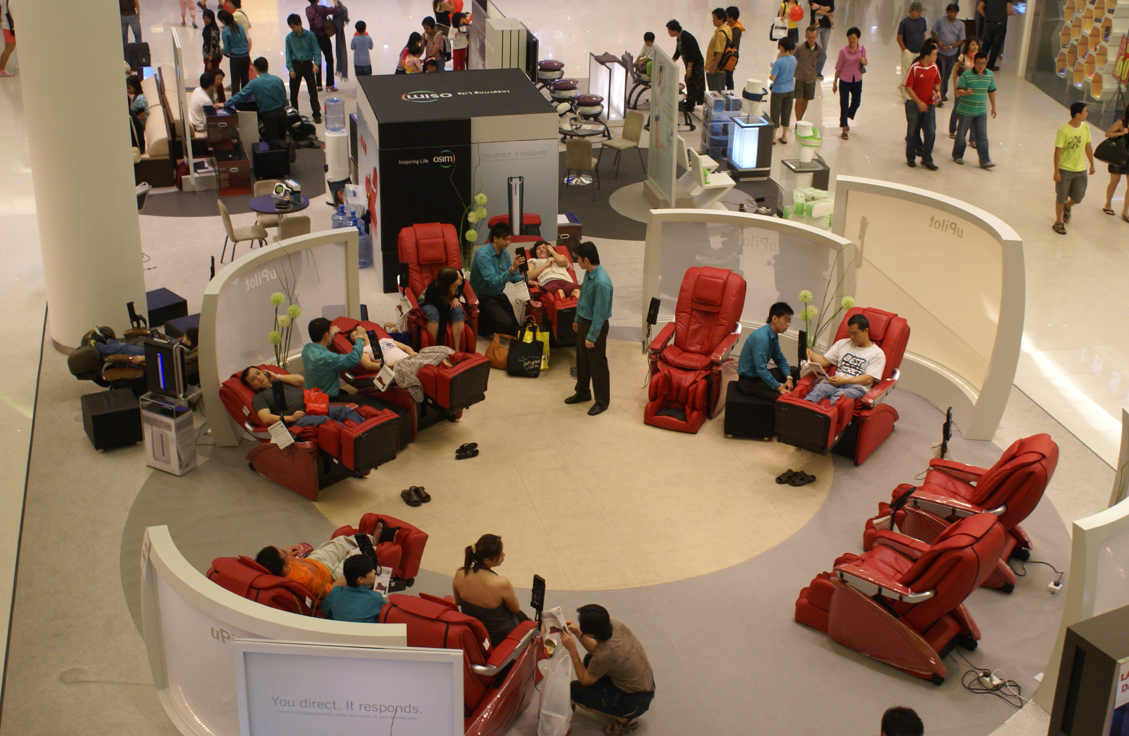 VivoCity in Singapore